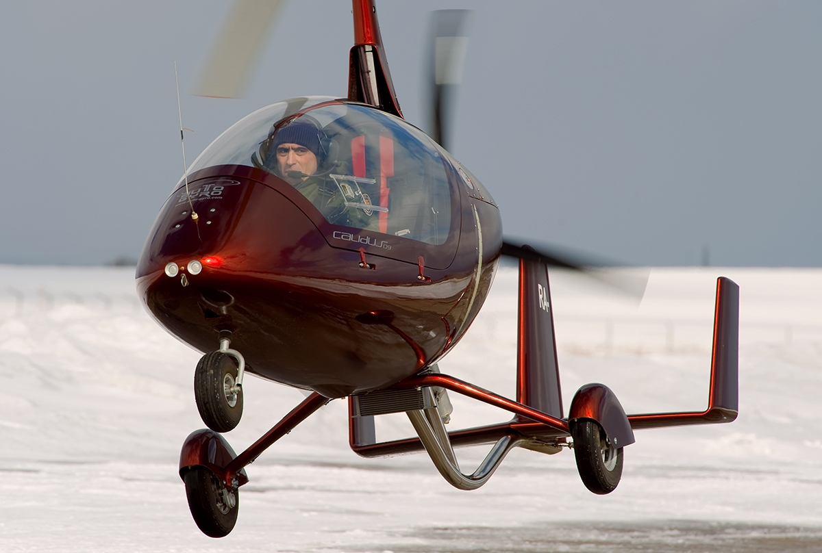 Calidus 09 in flight